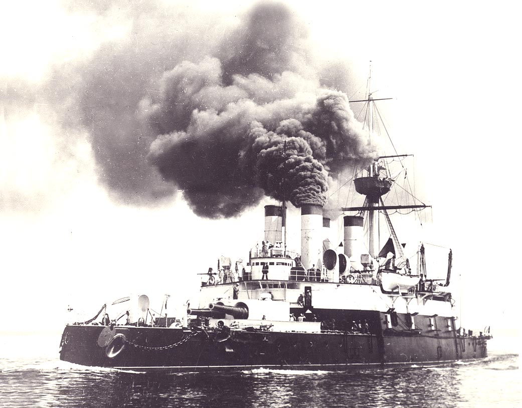 Imperial Russian battleship Navarin, 1902.